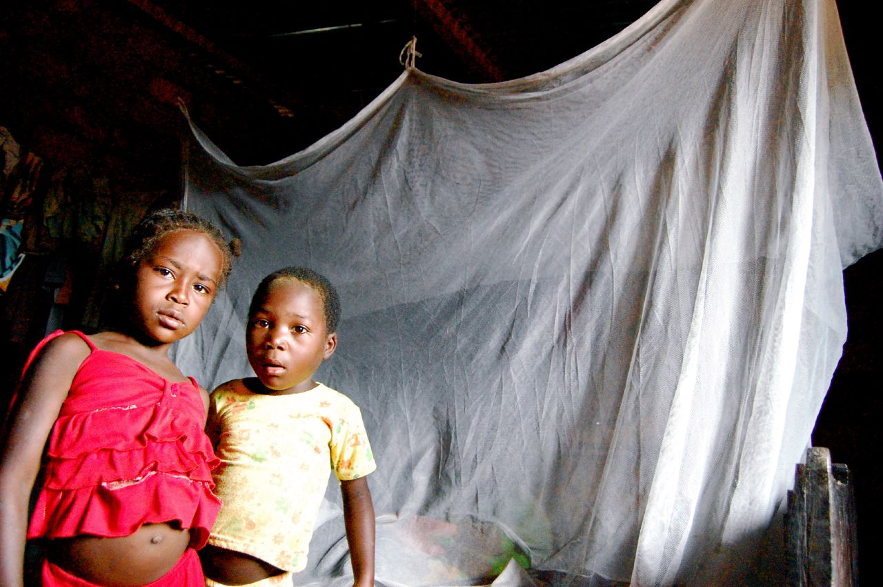 USAID and the President's Malaria Initiative support the distribution and use of bednets to protect against malaria. The bednets are especially important for children and pregnant women who are most vulnerable to the disease. Photo credit: Alison Bird/USAID